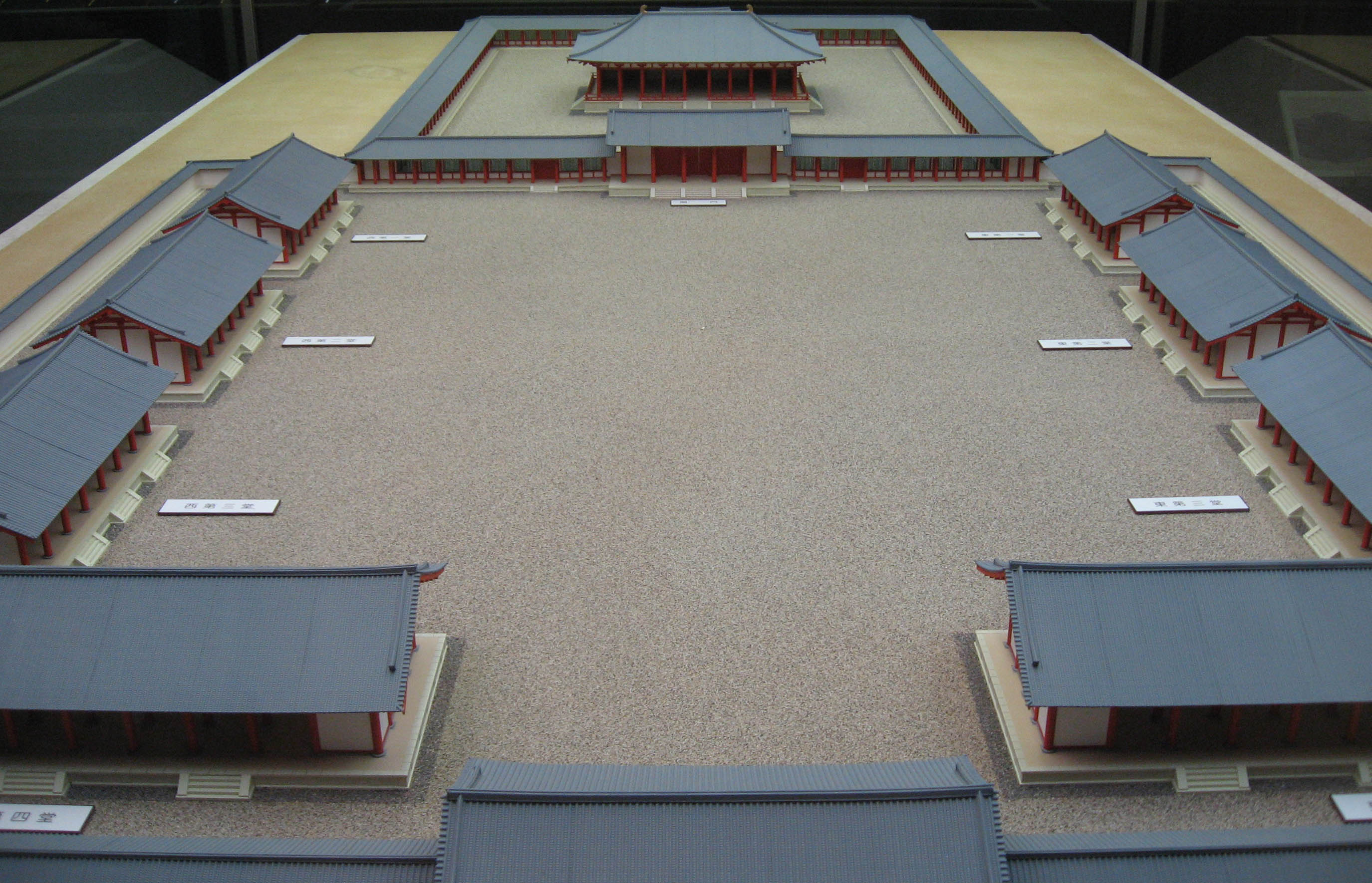 Miniature Model of Nagaokakyo Chodoin, 長岡京朝堂院復元模型（向日市文化資料館）